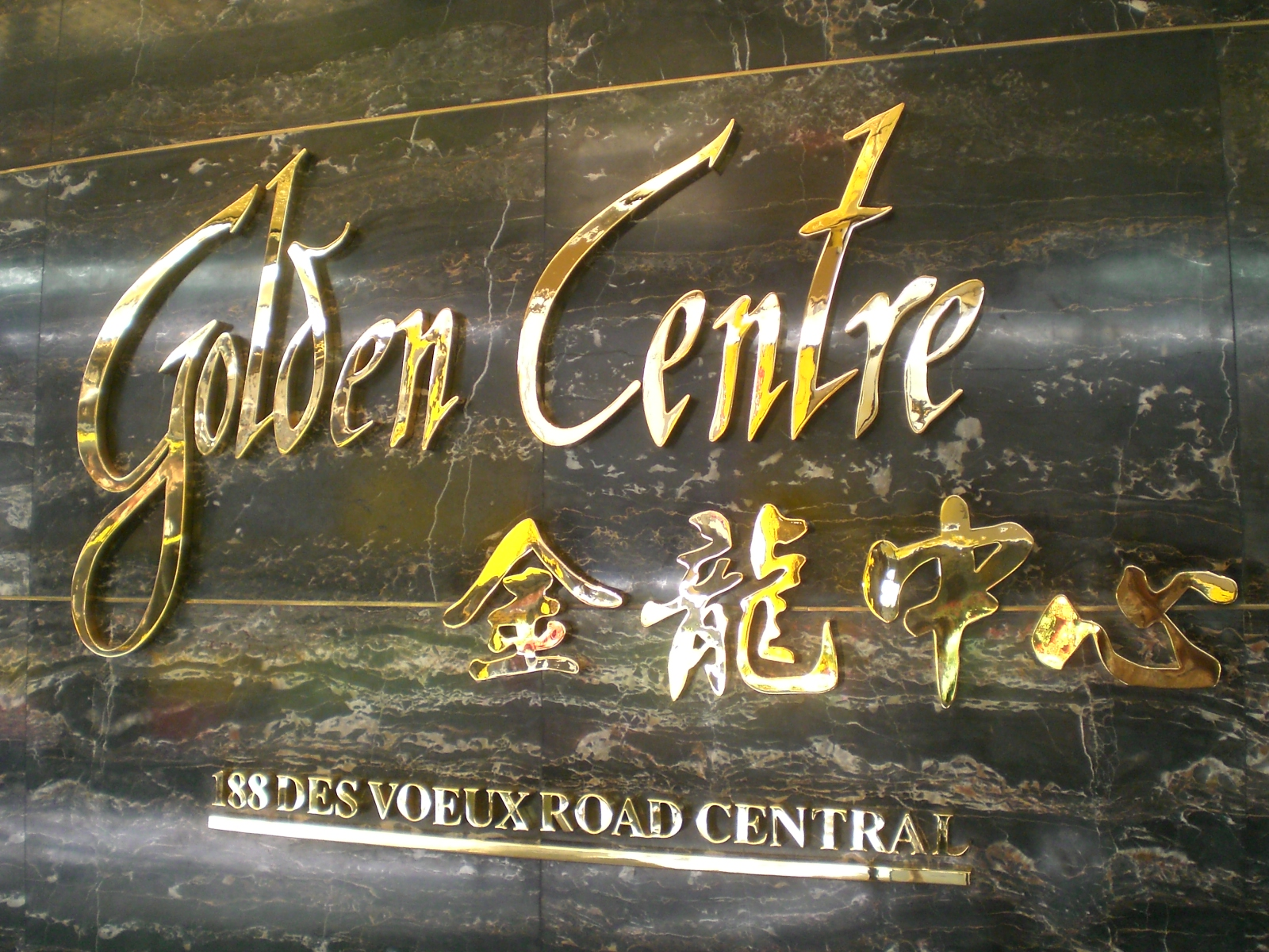 上環zh:德輔道中188號金龍中心 [1]